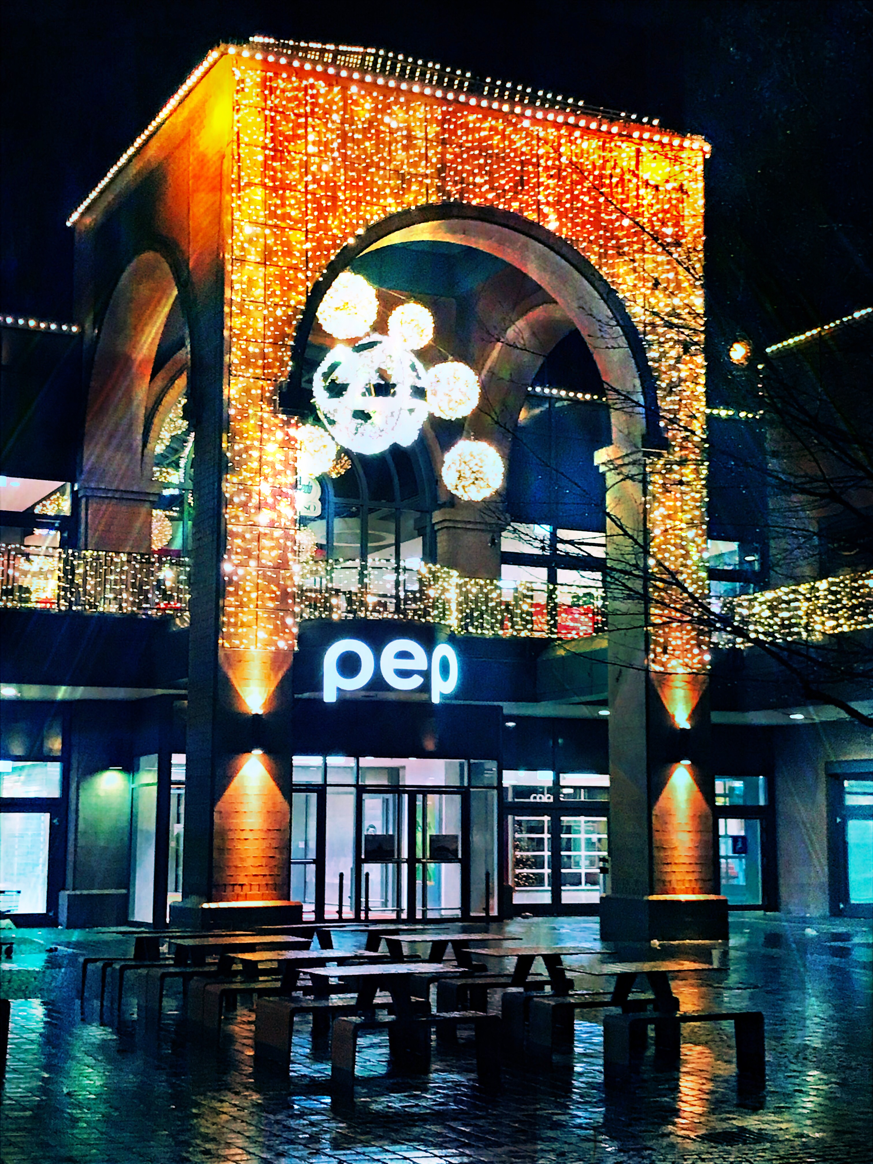 Entrance of the PEP shopping mall in Munich in December 2018.